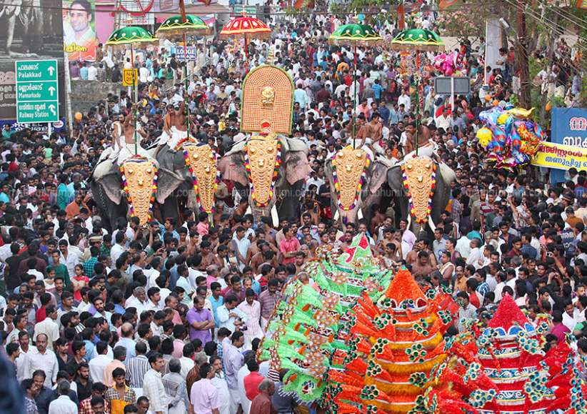 Picture of Thirumandhamkunnu Pooram